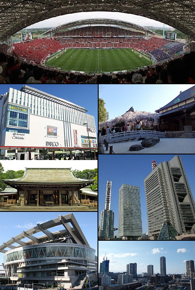 From top : Saitama Stadium, Saitama Urban Center, Urawa PARCO , Gyokuzouin , Saitama Super Arena, Musashi Urawa, Hikawa shrine.